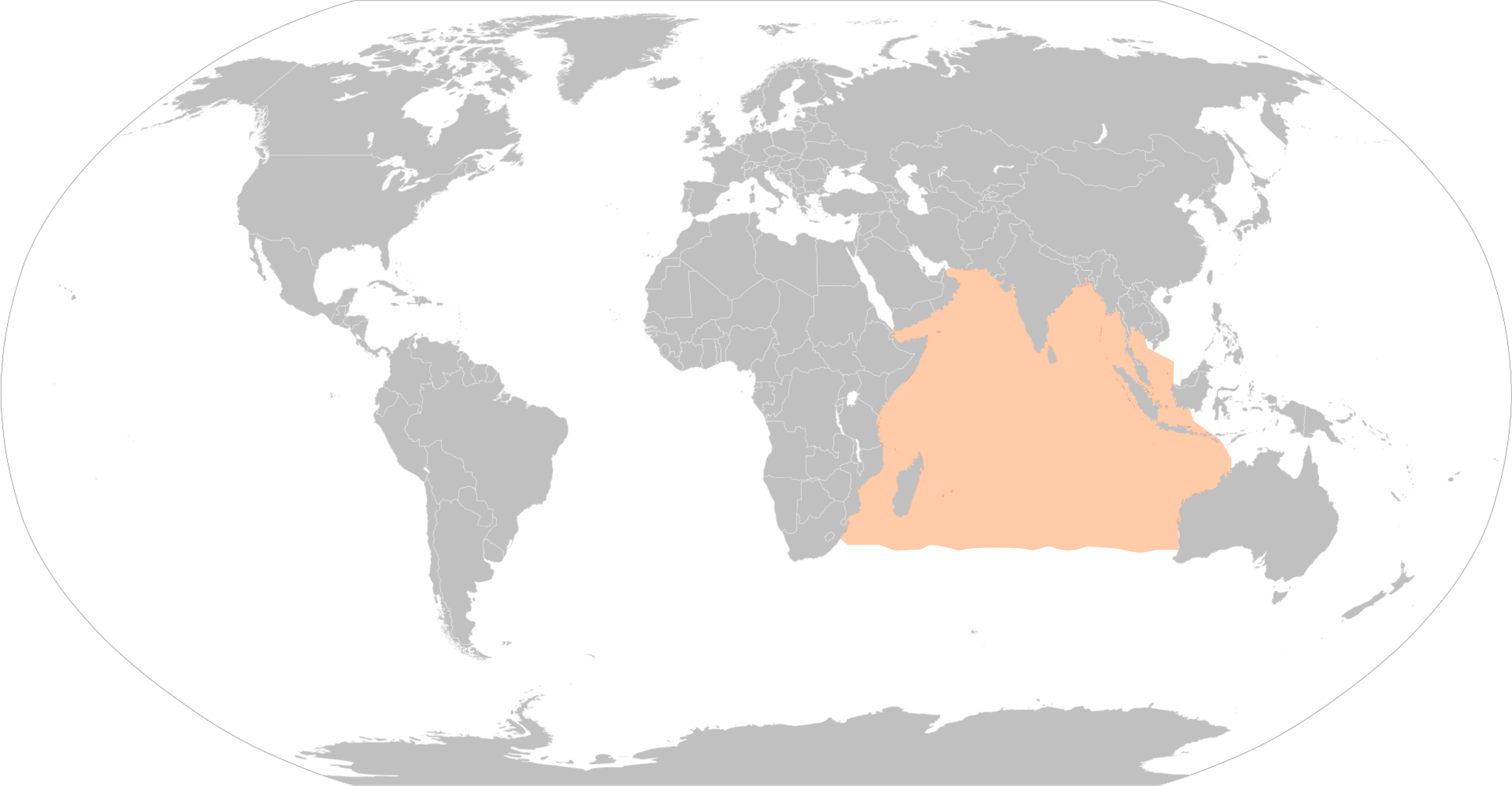 A distribution map for the sea slug species Nembrotha aurea. Original blank SVG map by author Canuckguy and others. Made with Inkscape.